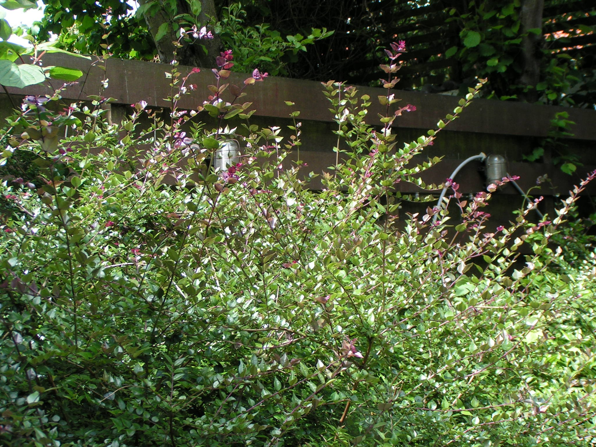 Boxleaf honeysuckle